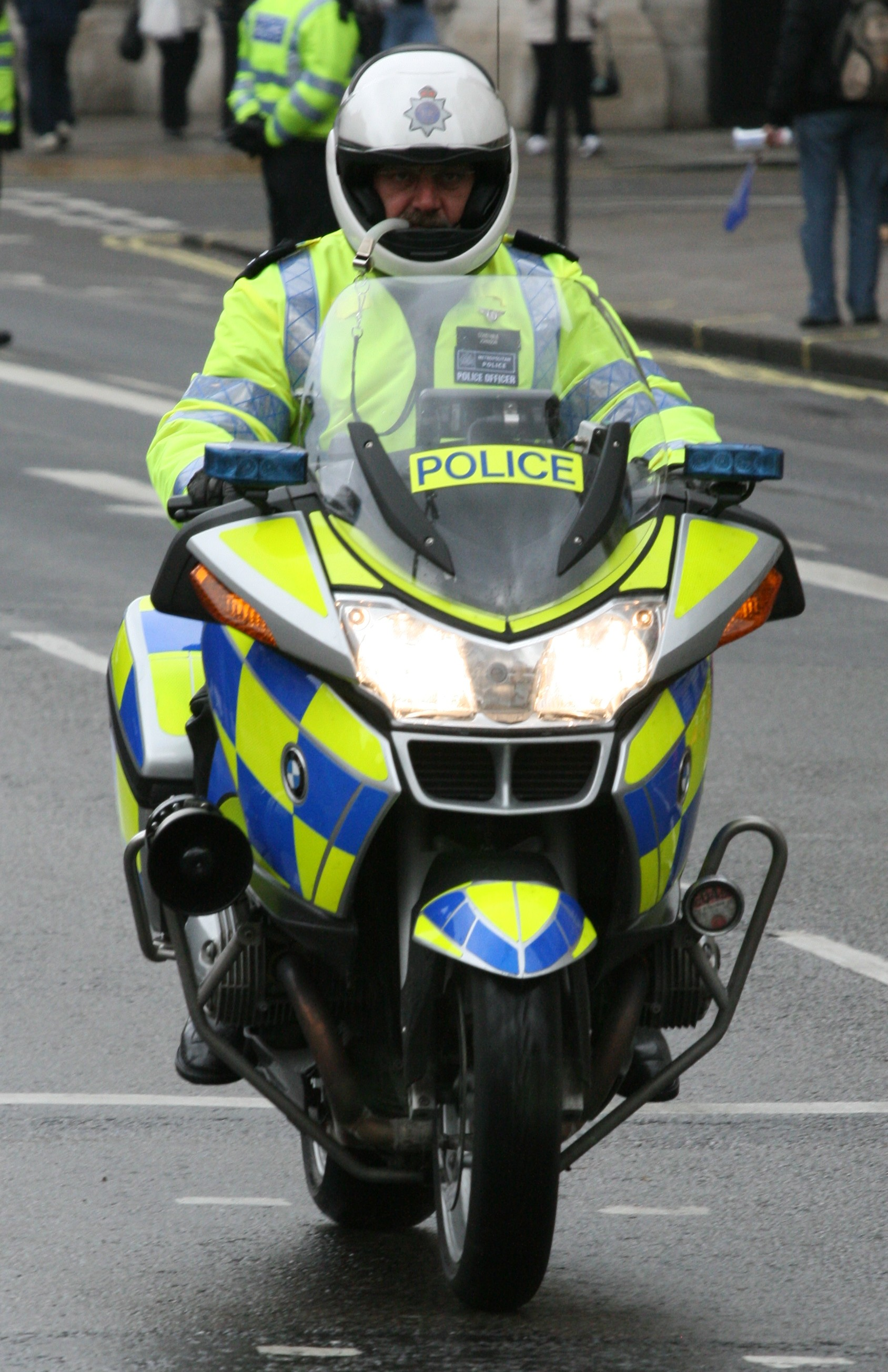 Metropolitan Police Service officer riding a BMW R 1200 RT at the Olympic Torch relay for the 2008 Summer Olympics on Whitehall in London.